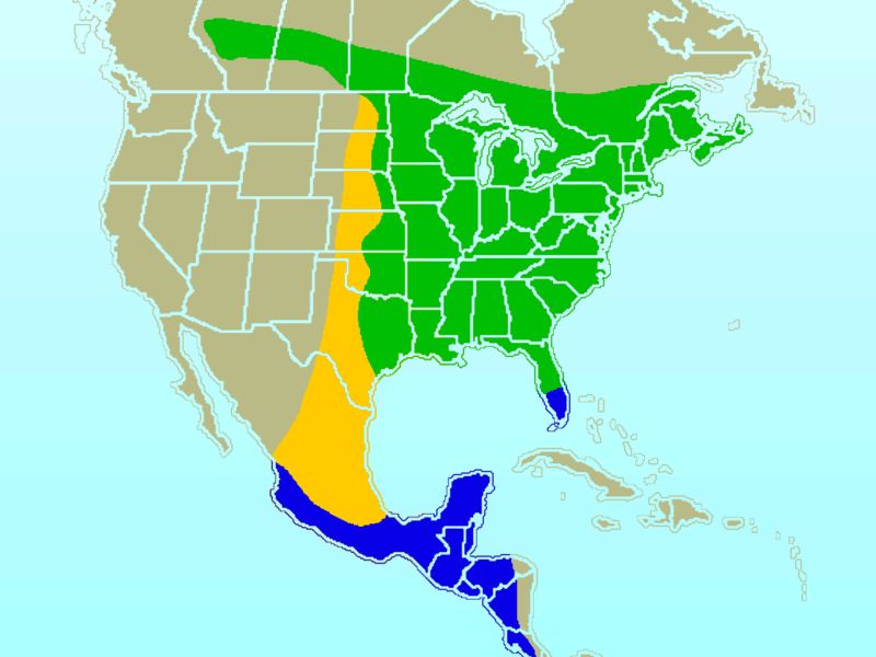 Approximate range/distribution map of the Ruby-throated Hummingbird (Archilochus colubris). In keeping with WikiProject: Birds guidelines, green indicates the summer-only range, blue indicates the winter-only range, and orange indicates areas through which the species will pass during migratory activity.